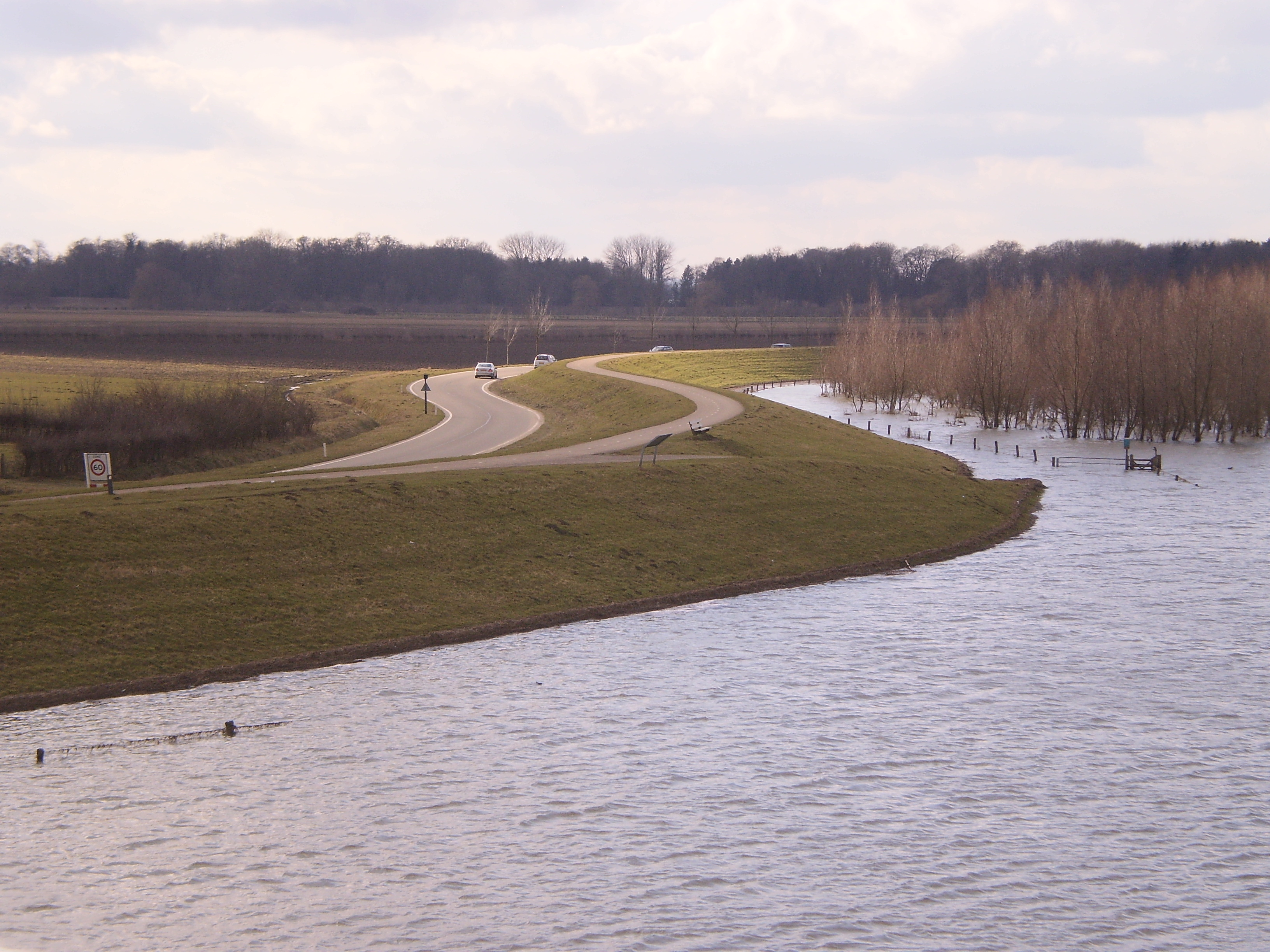 Dike alongside the IJssel river near Deventer, with flooded river meadow (nature area Ossenwaard